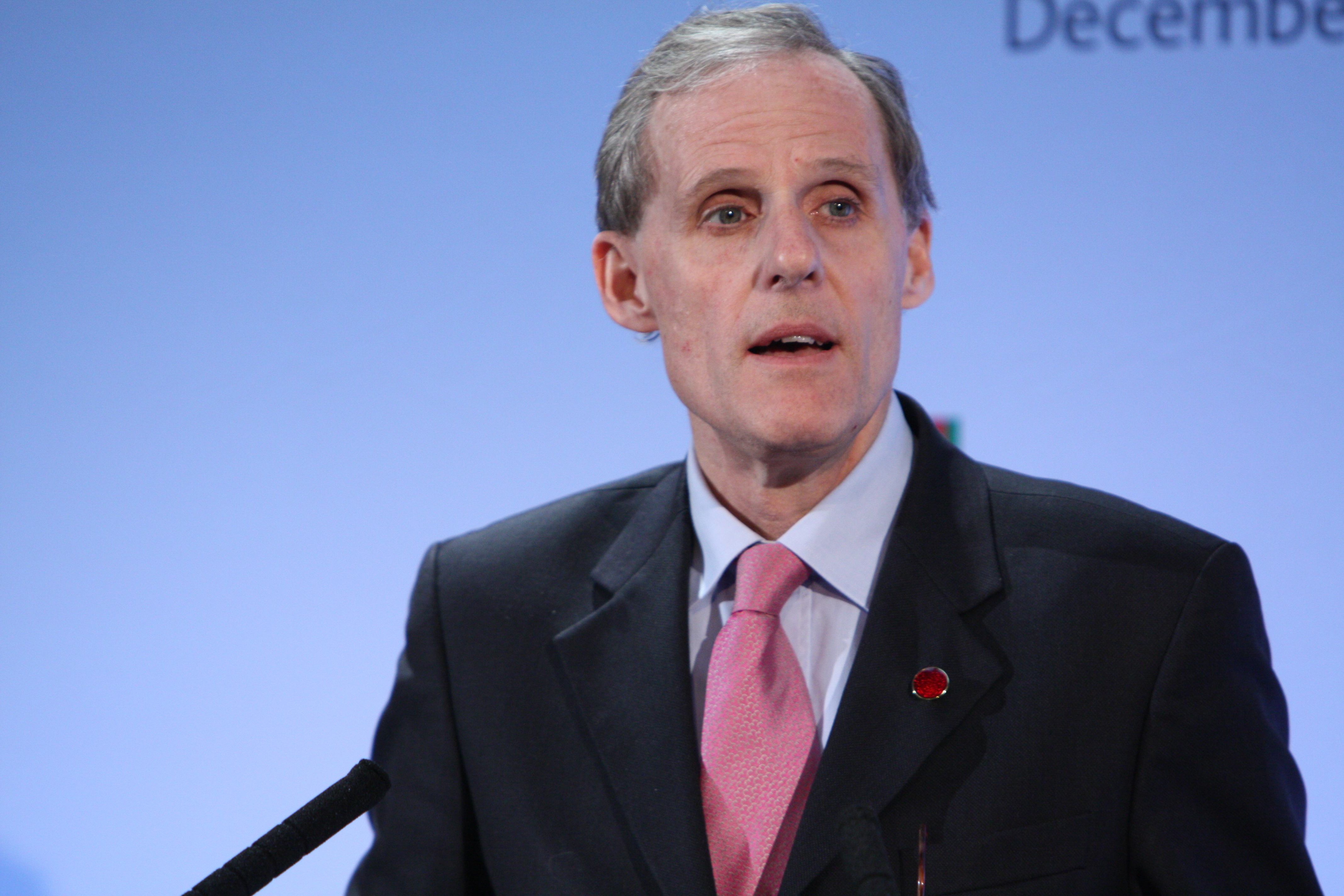 Christian Masset - The London Conference on Afghanistan takes place on 4 December 2014, co-hosted by the governments of the UK and Afghanistan. The Conference brings together the Afghan government and international community in support of a secure and peaceful future for Afghanistan. Find out more at: Picture: Patrick Tsui/FCO Free-to-use photo This image is posted under a Creative Commons - Attribution Licence, in accordance with the Open Government Licence. You are free to embed, download or otherwise re-use it, as long as you credit the source as ‘Patrick Tsui/FCO’.